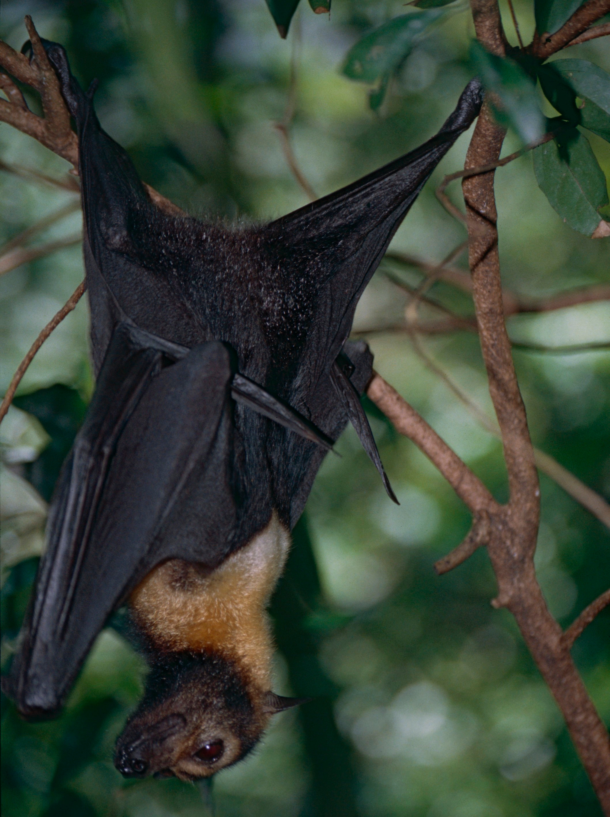 Rainforest Habitat, Port Douglas, North Queensland, AUSTRALIA Scanned Slide from Nov 2000